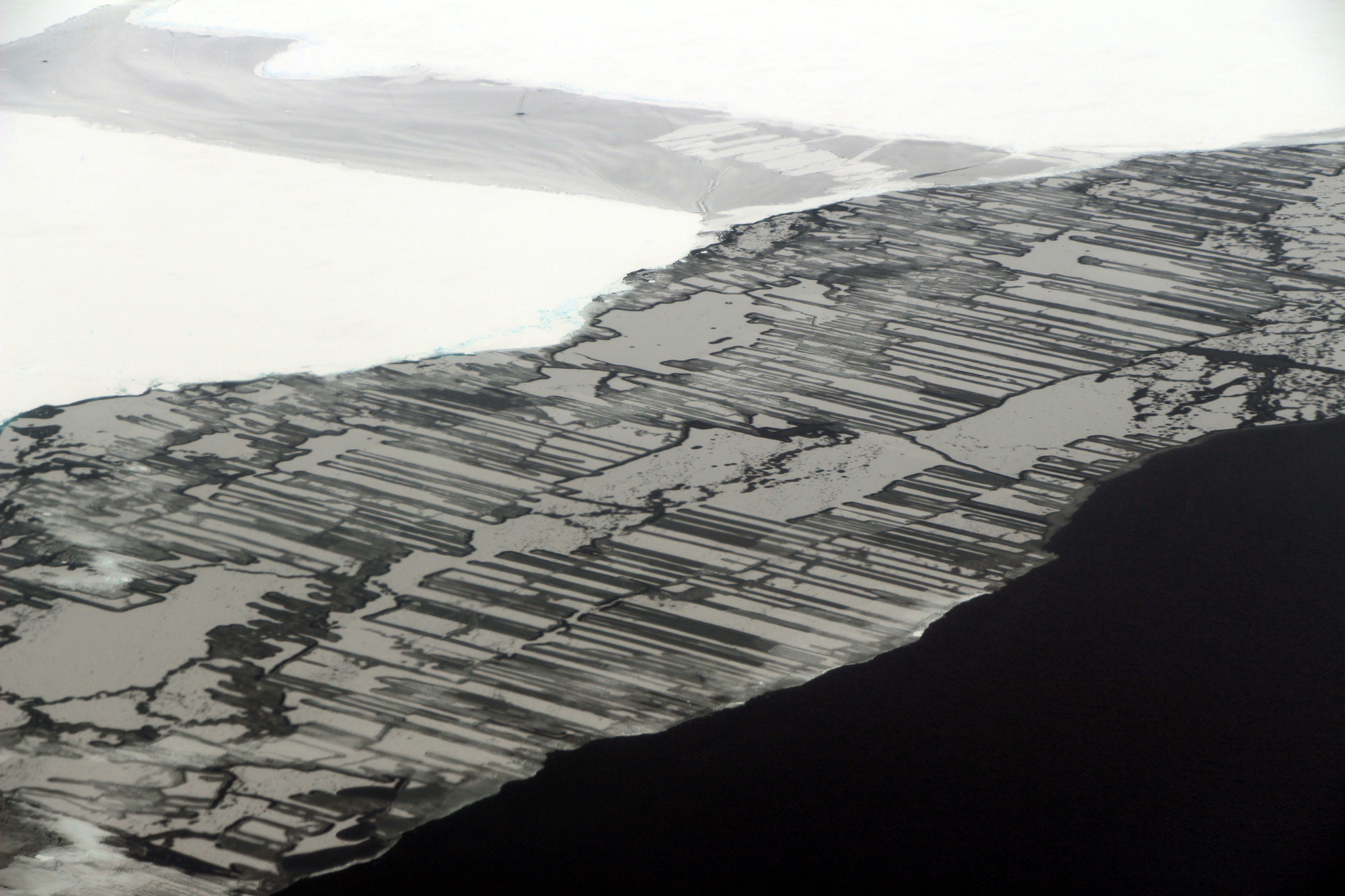 On November 14, 2017, John Sonntag (mission scientist for Operation IceBridge) took this photograph of ice in the Weddell Sea. The geometric shapes are due to a phenomenon known as “finger rafting,” which occurs when two floes of thin ice collide. As a result of a collision, blocks of ice slide above and below each other in a pattern that resembles a zipper or interlocking fingers. Brine expelled from the ice forms a solution that acts as a lubricant. For finger rafting to occur, it’s critical that the ice be thin—calculations suggest no more than 20 centimeters (8 inches). Any thicker and the ice loses its flexibility. Without flexibility, thicker ice floes that collide can result in a big pile up known as “ridging.” “Normally you see finger rafting in bits and pieces, a few blocks here and there,” said Nathan Kurtz, IceBridge project scientist. “But this is so extensive. I’ve never seen so much rafting occurring across such a wide area.” That is not necessarily significant; it is simply a good example of the phenomenon. The photograph above was shot on November 14, 2017, from the window of a NASA P-3 research airplane during a flight for Operation IceBridge.